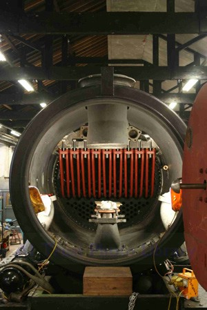 Tornado's smokebox, showing superheater elements, blast-pipe and chimney liner fitted, Jan 2008